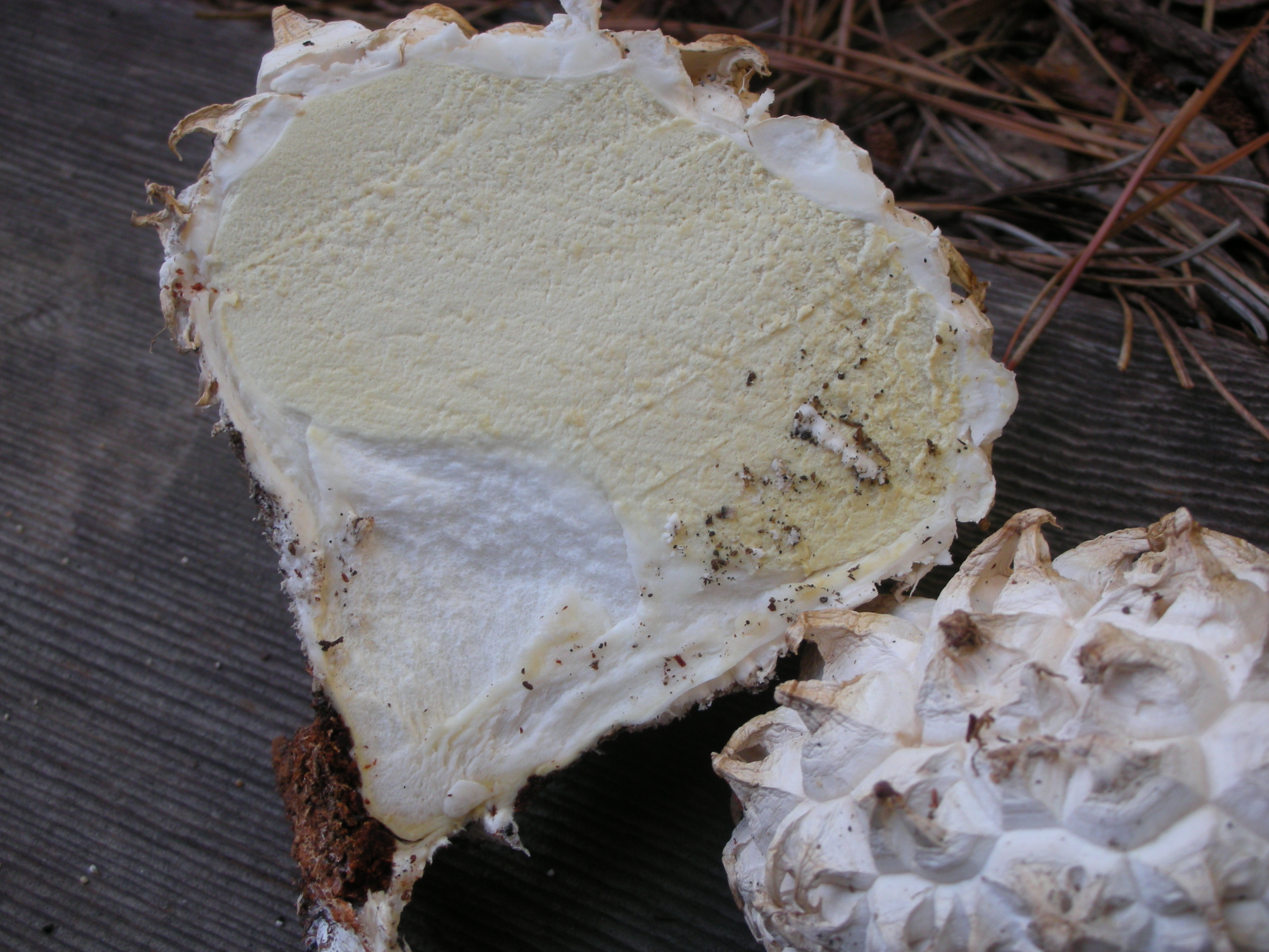 The edible puffball mushroom Calvatia sculpta (Harkn.) Lloyd. Specimen photographed near Echo Summit/Hwy 50, California. "Notes: One specimen growing on an old fallen log."